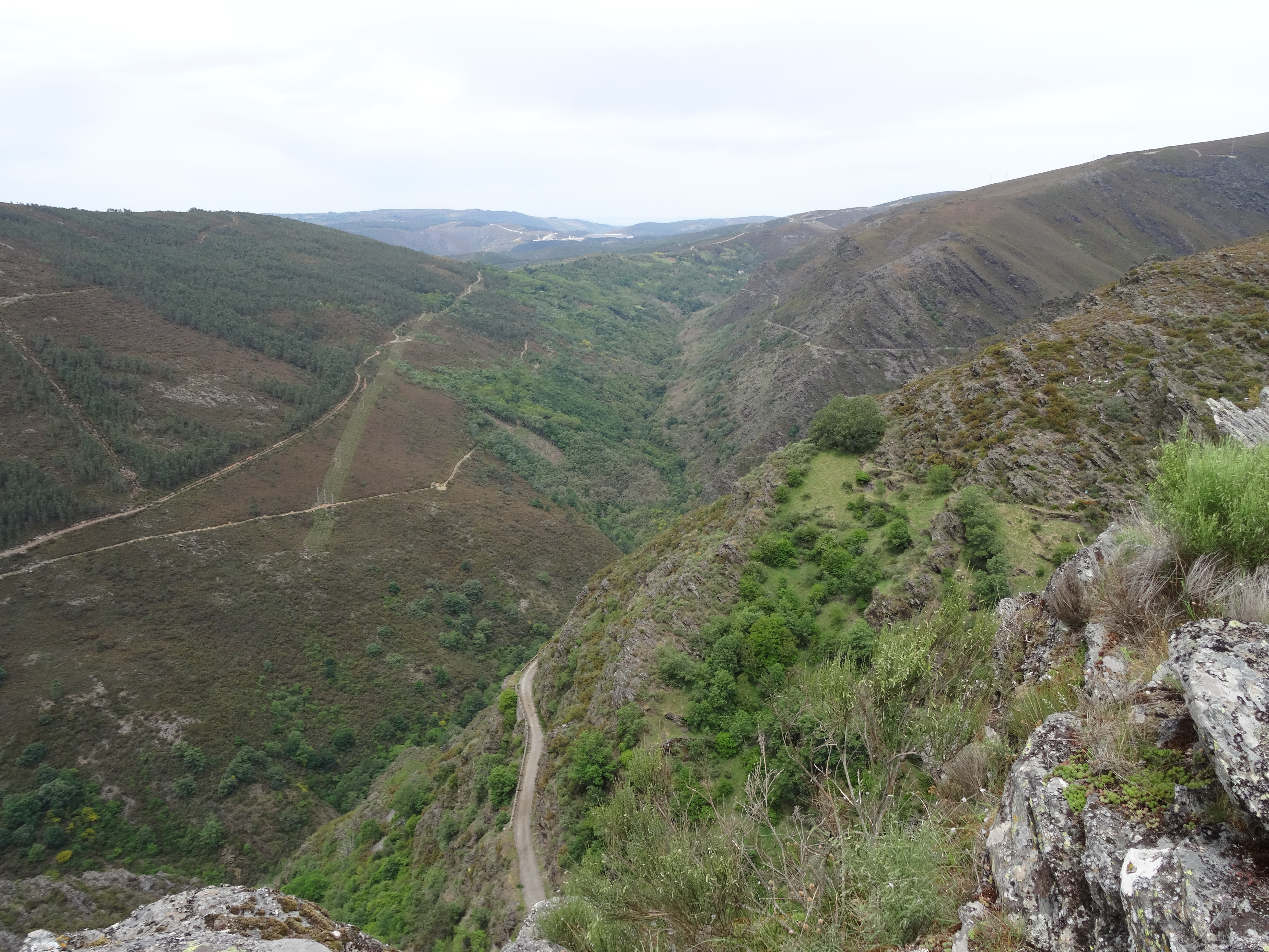 View from viewpoint of O Corno, parish of Toro, municipality of Laza. (Spain)